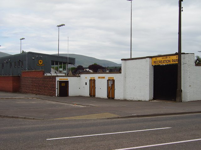 Recreation Park. Alloa Athletic. Like a lot of central Scottish grounds, when the game gets dull, you can enjoy the good view of the Ochils.